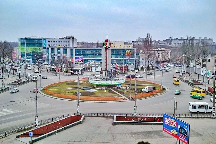 Kryvyi Rih (Maksyma Hor'koho square, Kryvyi Rih, Ukraine)